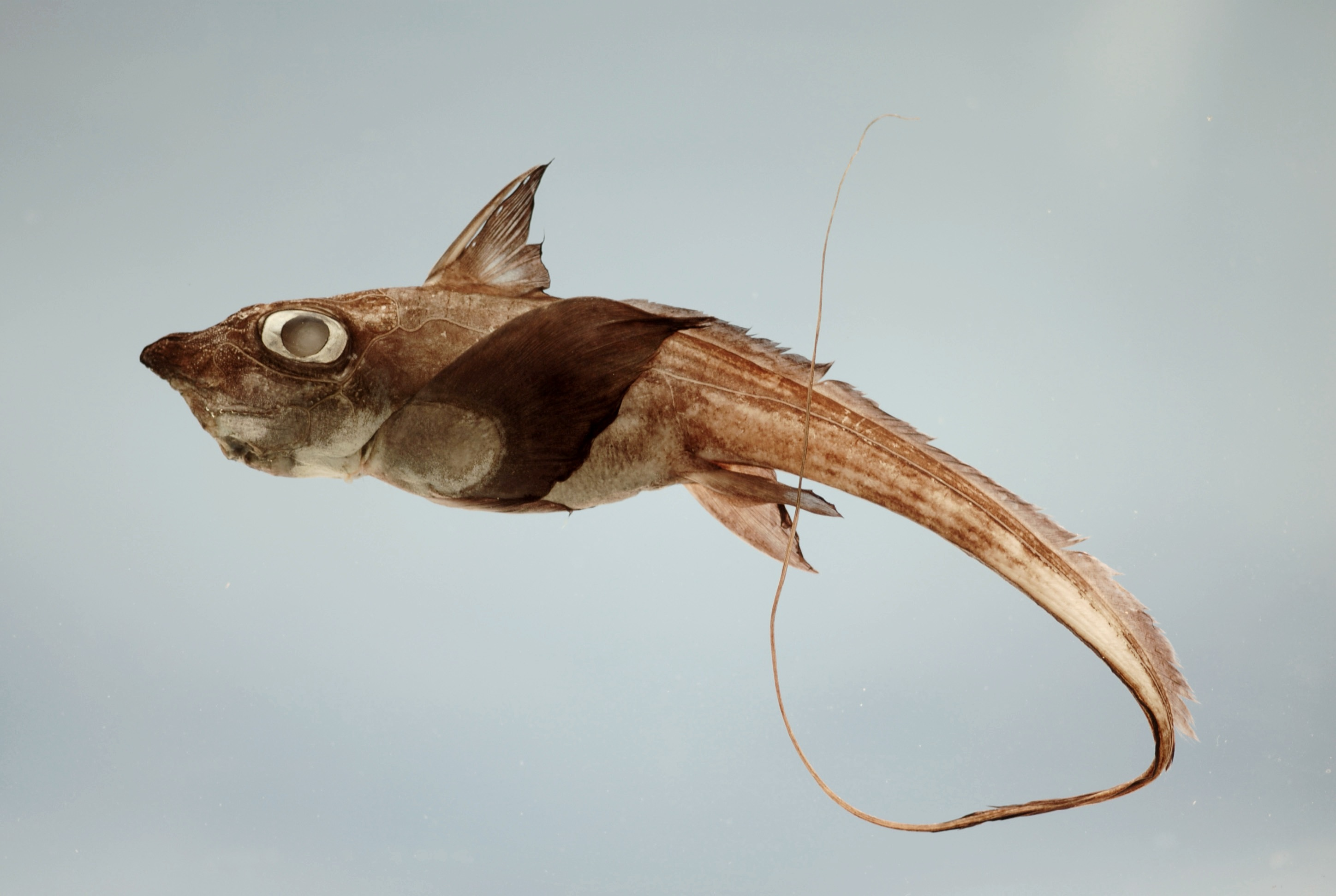 A shortnose chimaera or ratfish Hydrolagus alberti from Gulf of Mexico